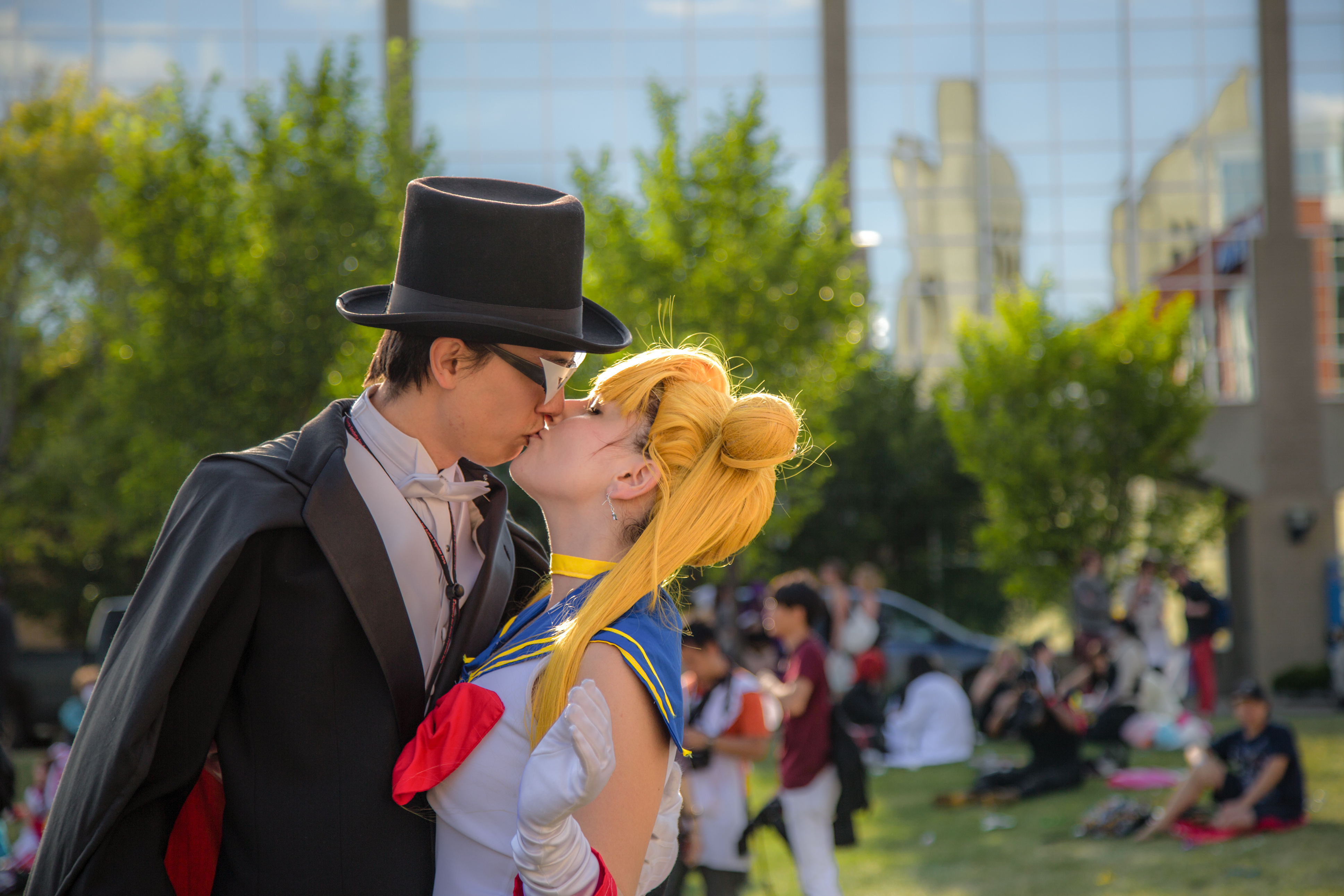 Edmonton Animethon 20 - 2013